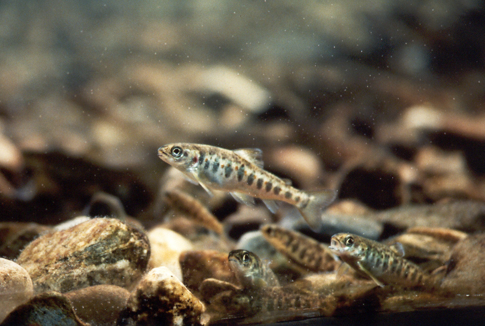 Atlantic Salmon parr of Maine's Machias River in a hatchery